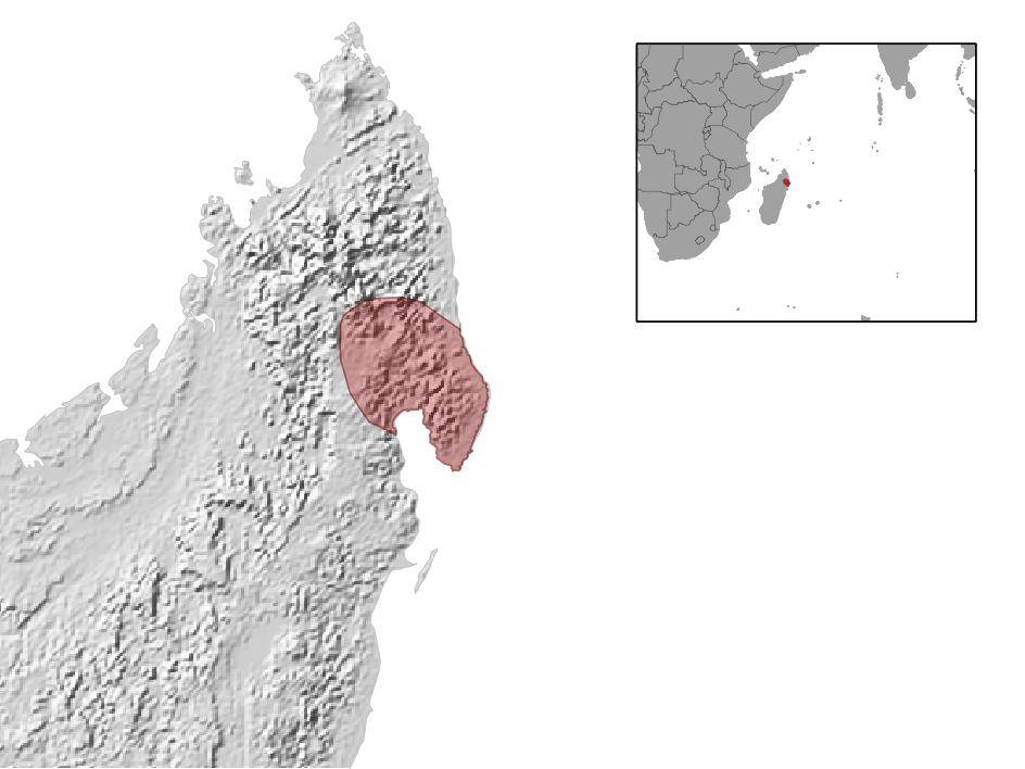 geographic distribution of Madascincus nanus